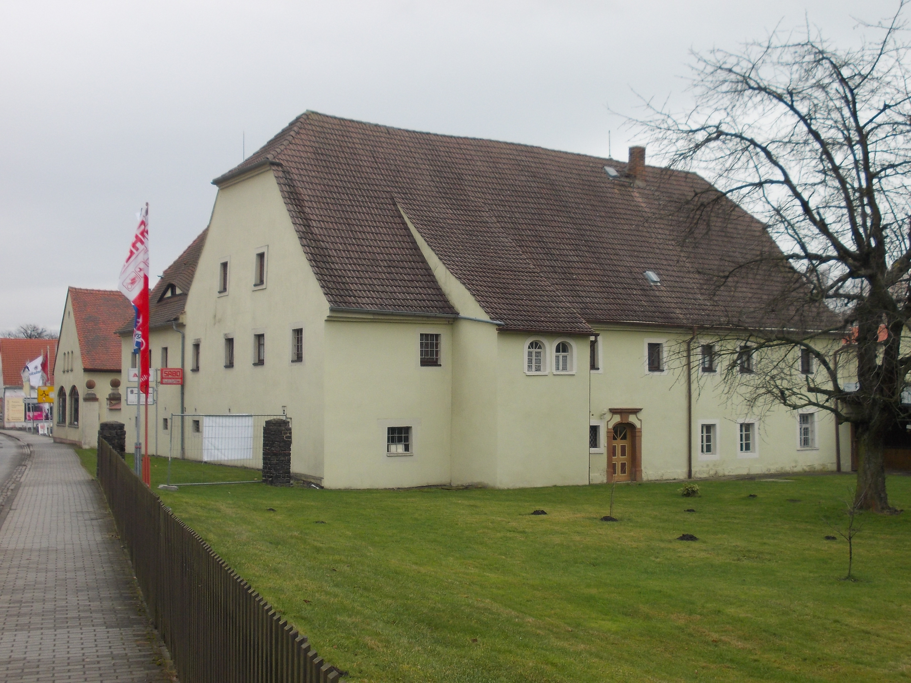 Former farm in Pethau (Zittau, Görlitz district, Saxony)